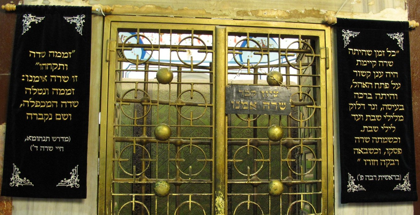 Cenotaph_of_Sarah - northwestern_view Photo taken by myself in the Cave of the Patriarchs (Hebron) on October 25, 2010